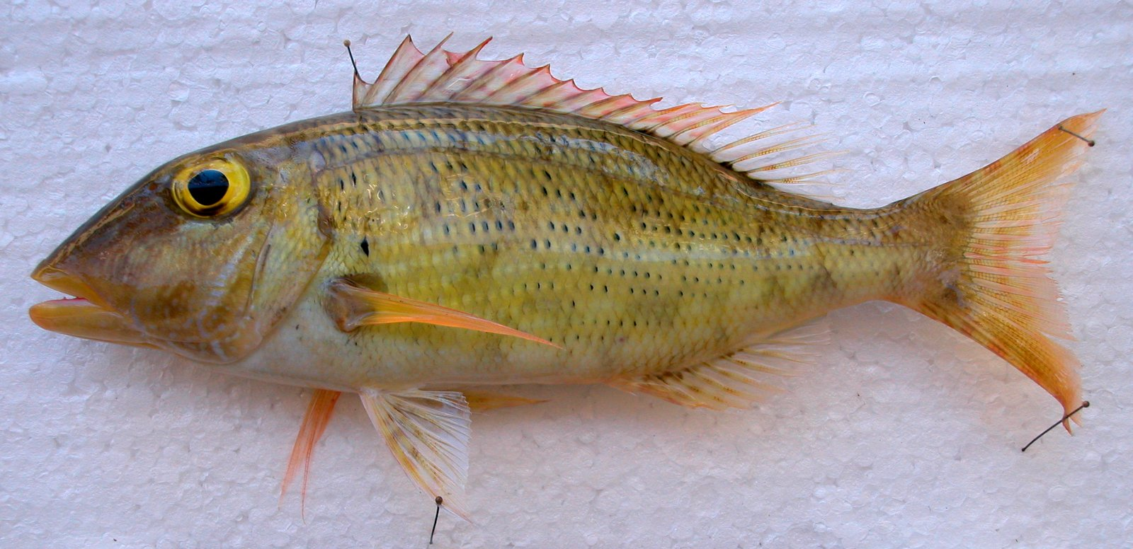 Lethrinus ravus Carpenter & Randall, 2003 from off New Caledonia. Specimen now in the collections of the Muséum National d'Histoire Naturelle, Paris, France, under registration number MNHN 2006-1637. Parasitological number JNC1761. Collected off Ilot Signal, off Nouméa (22°6' 0" S ; 166°16'59" E), New Caledonia, 7 March 2006. Fork Length 190 mm, Weight 133 g. This specimen was identified (from photographs) by Kent Carpenter.